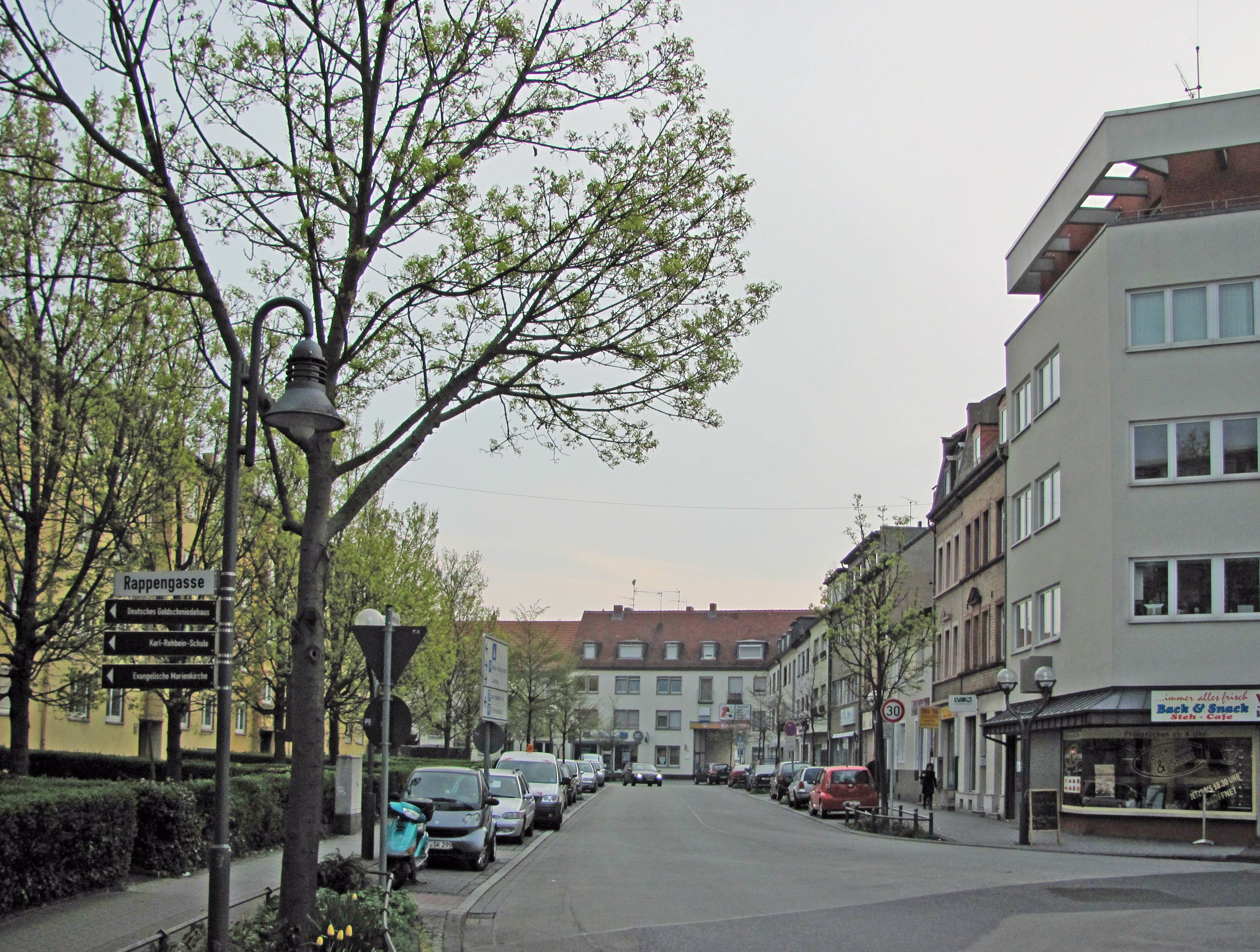 Nordstrasse, Hanau